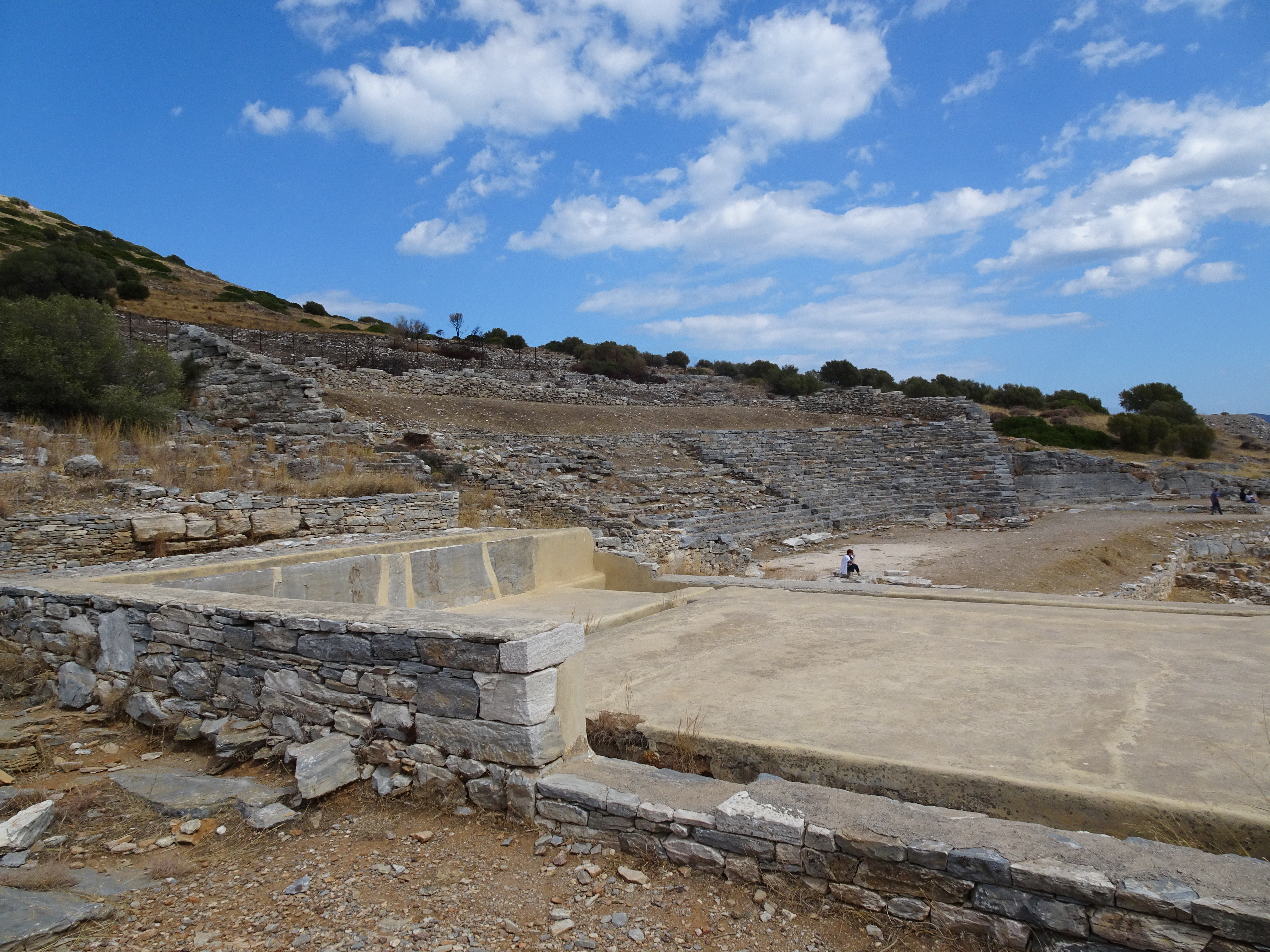 Level washery for concentrating lead ore right next to Ancient Theatre of Thorikos restored by the Belgian School